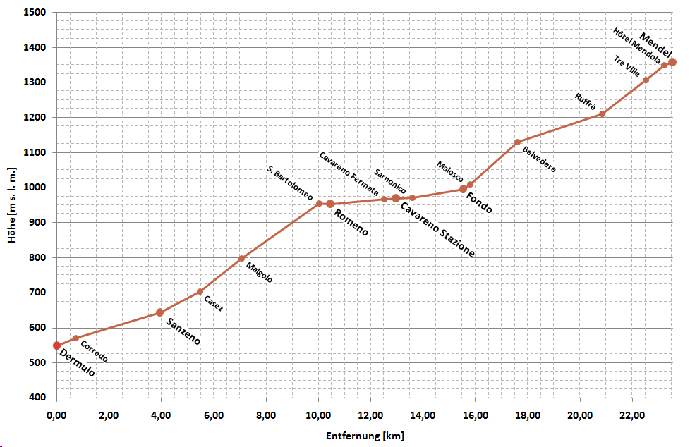 simplified altitude-profile of railway track Dermulo–Mendel